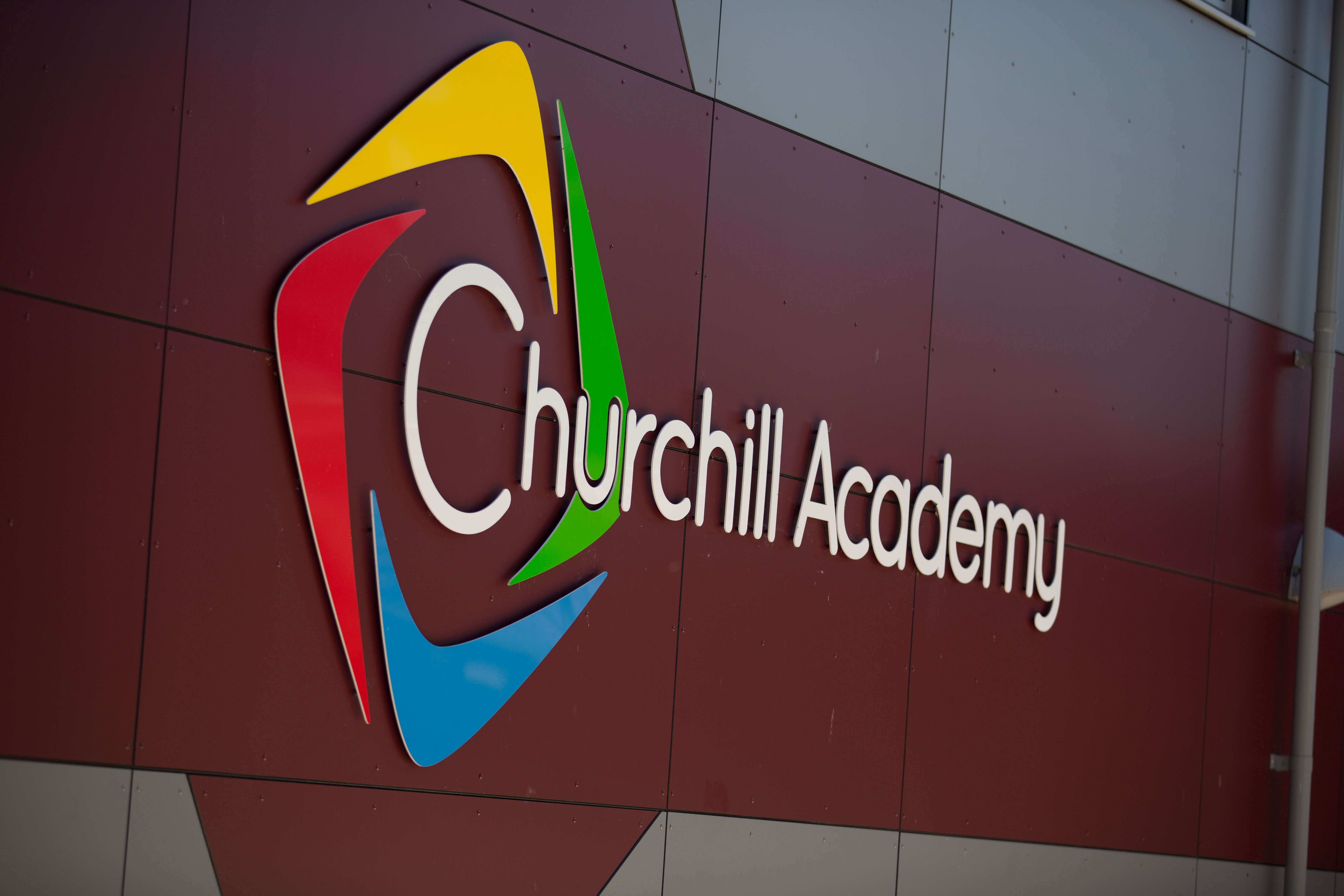 Exterior shot of main hall at Churchill Academy & Sixth Form, North Somerset